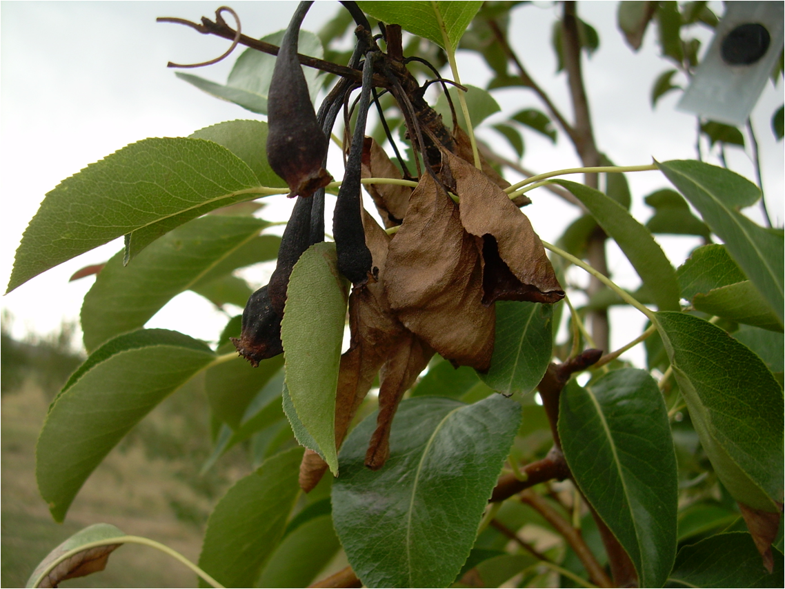 Fire blight (Erwinia amylovora) on a pear tree (Pyrus communis L.).